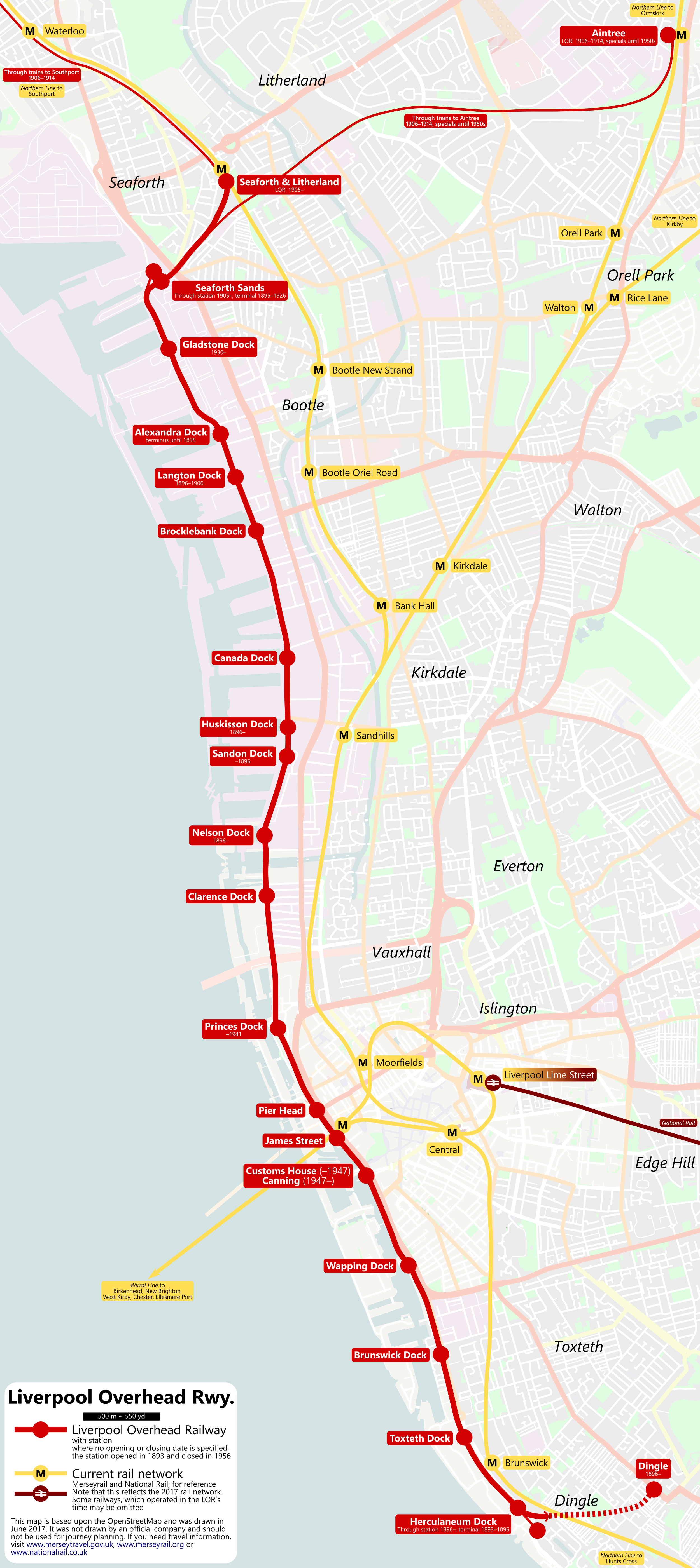 Geographical map of the Liverpool Overhead Railway. For reference, the current Liverpool rail network (Merseyrail and National Rail) is also shown. Of the LOR stations, the opening and closing date, if it is not the line’s overall opening in 1893 and closing in 1956, are noted beneath the station name. Note, because it is not relevant for a LOR map, the Birkenhead area has been omitted.